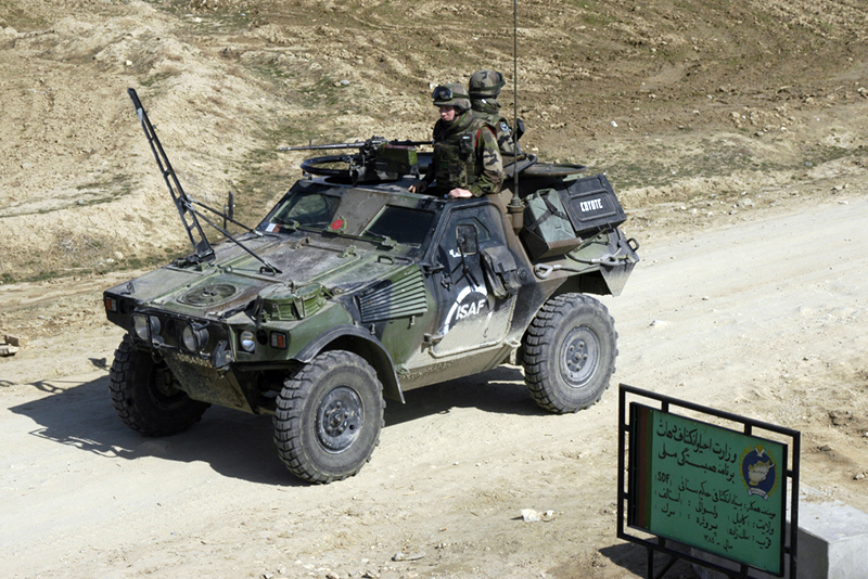 VBL (armoured light vehicle) of the French 1st Airborne Hussars Regiment in Afghanistan.